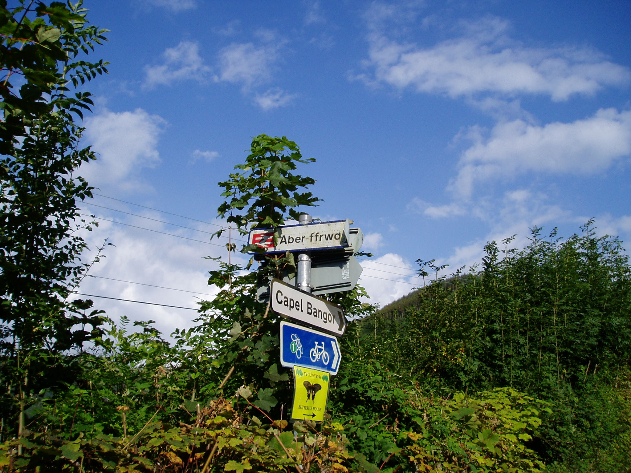 Road signs in Aberffrwd. Signs for cyclists following the Nation Cycle Network between Borth and Devil's Bridge (Ceredigion). The train station is nearby.